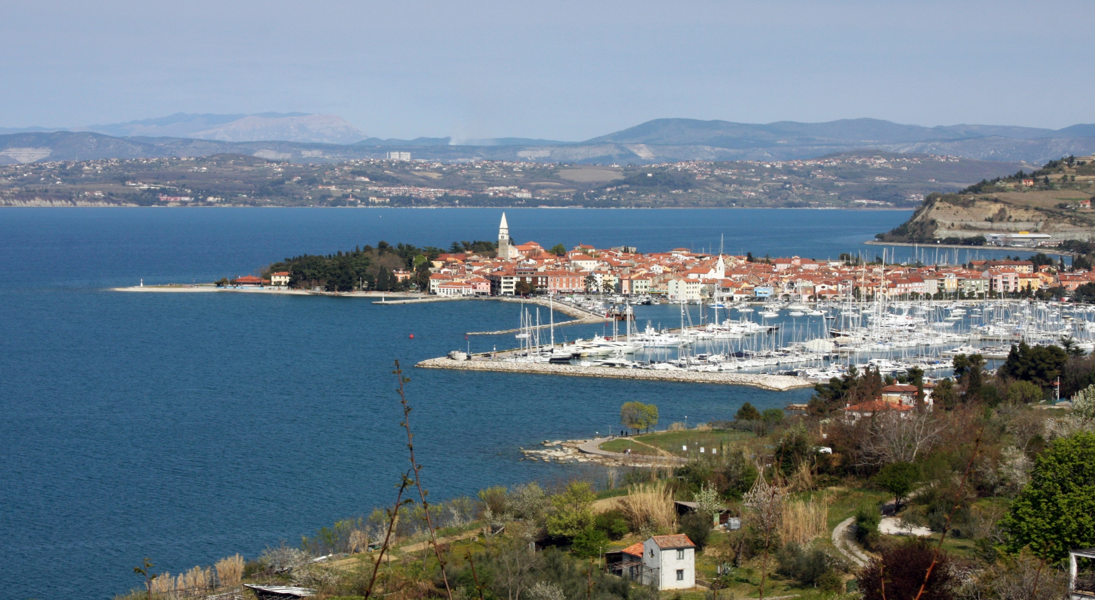 A panoramic shot of the town of Izola, southwestern Slovenia.